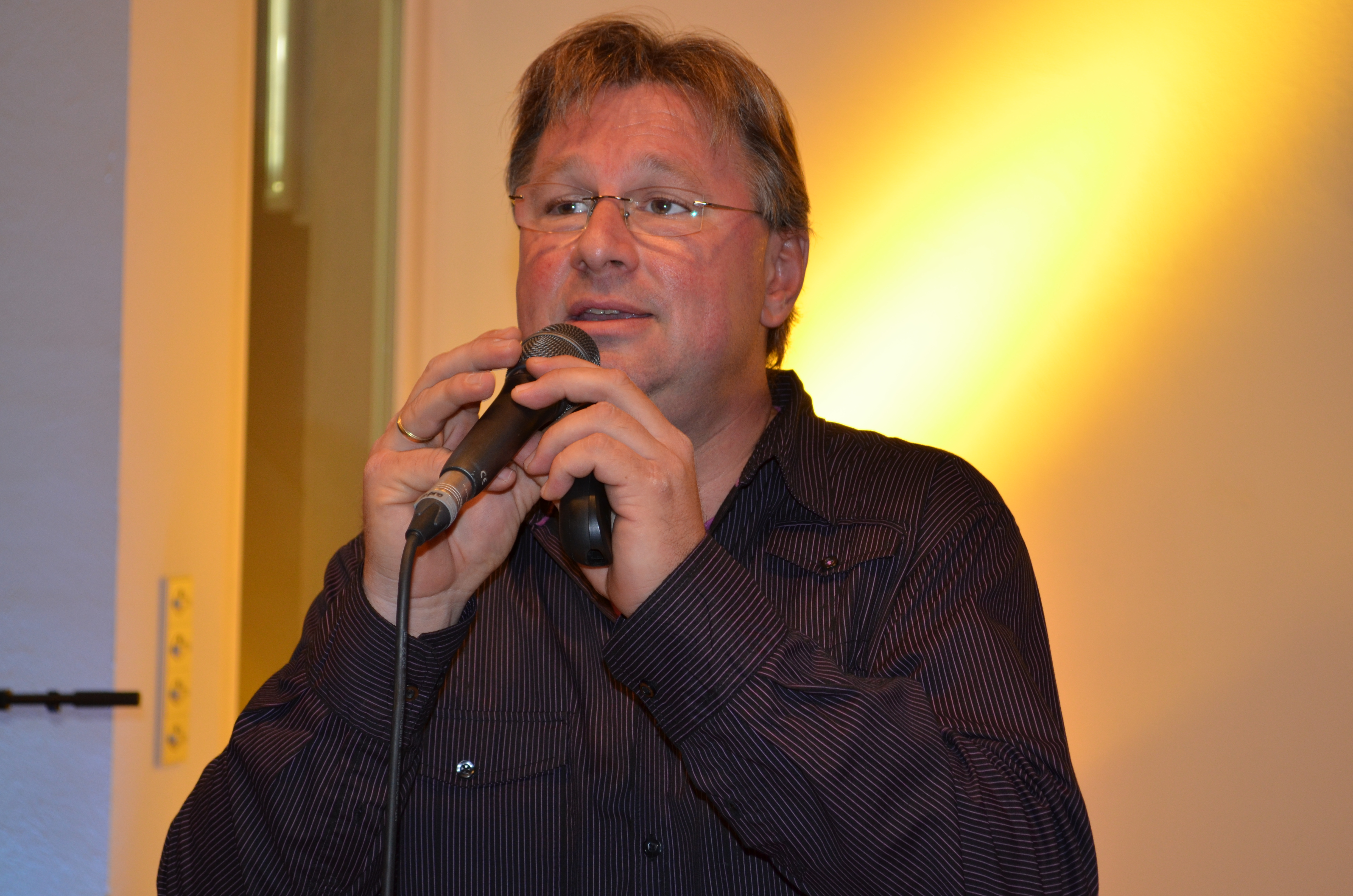 Heiko Bräuning, musician